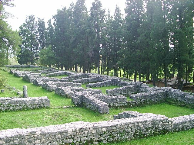 Historical excavations in Mogorjelo, BiH